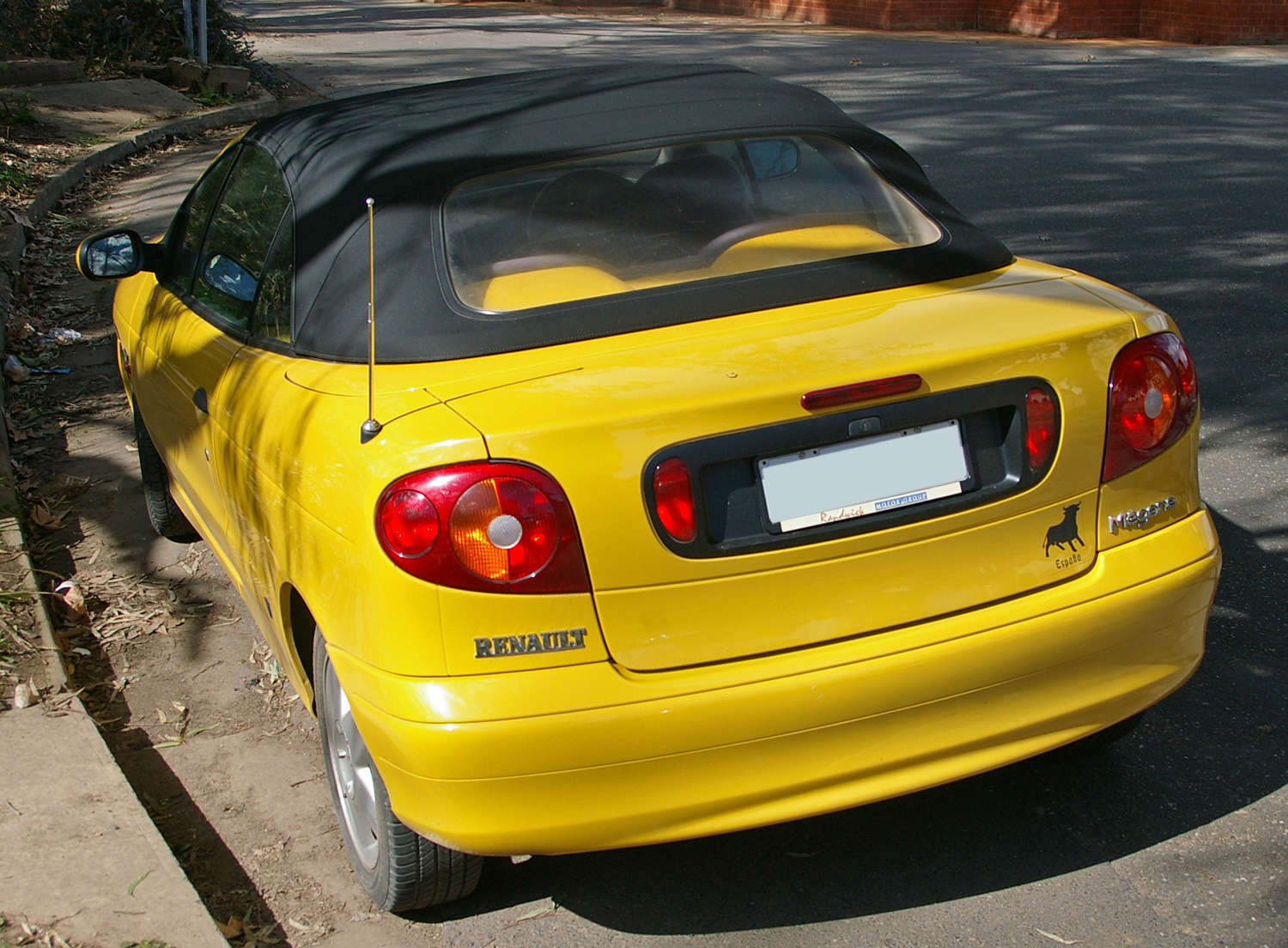 2002 1.6 16V Renault Mégane Convertible.